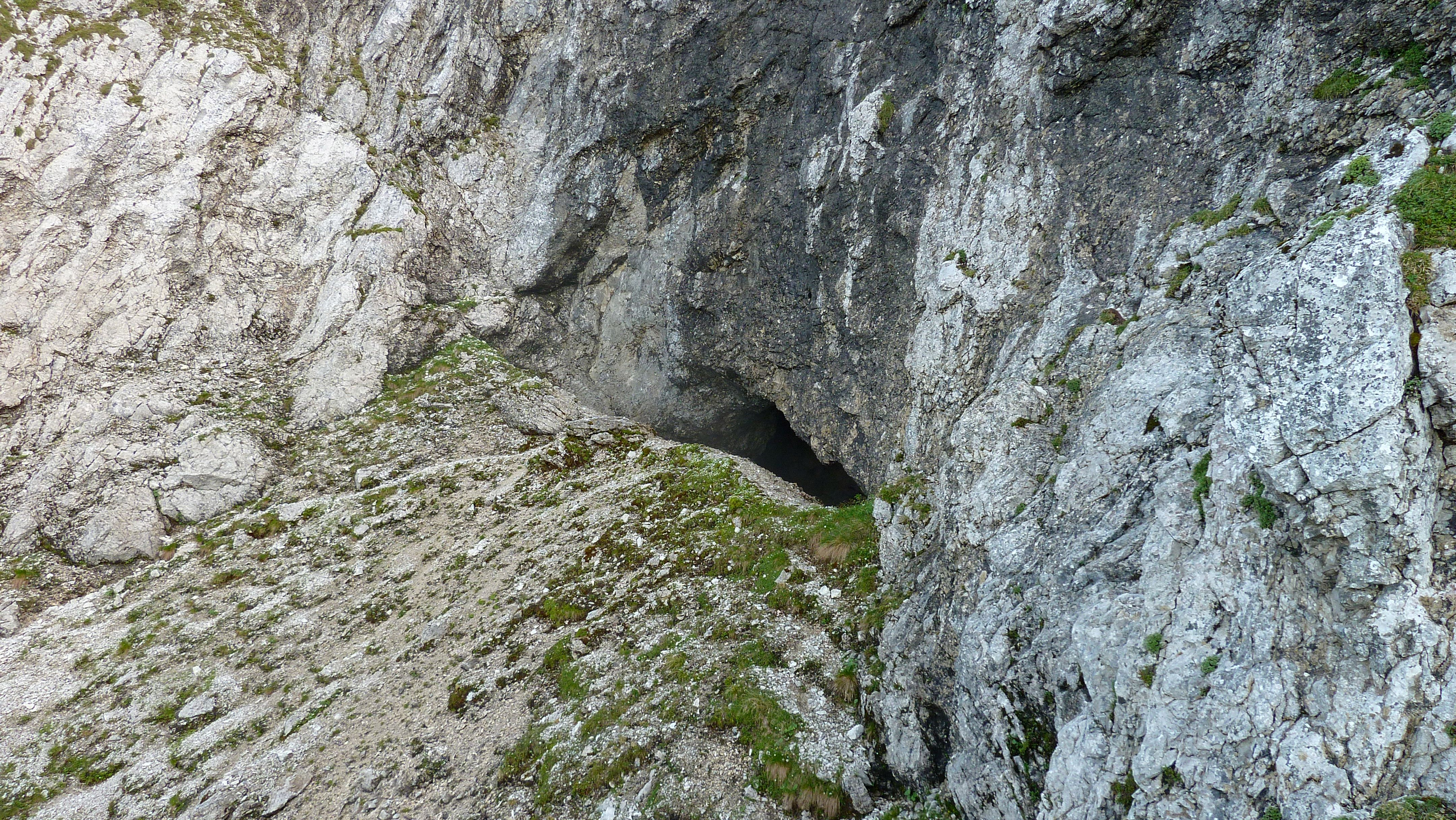 Portal of Hochlecken-Großhöhle This media shows the natural monument in Upper Austria with the ID nd602.